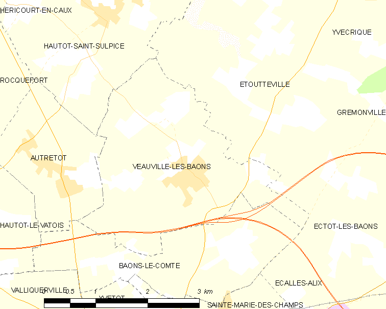 Map of French municipality Veauville-lès-Baons